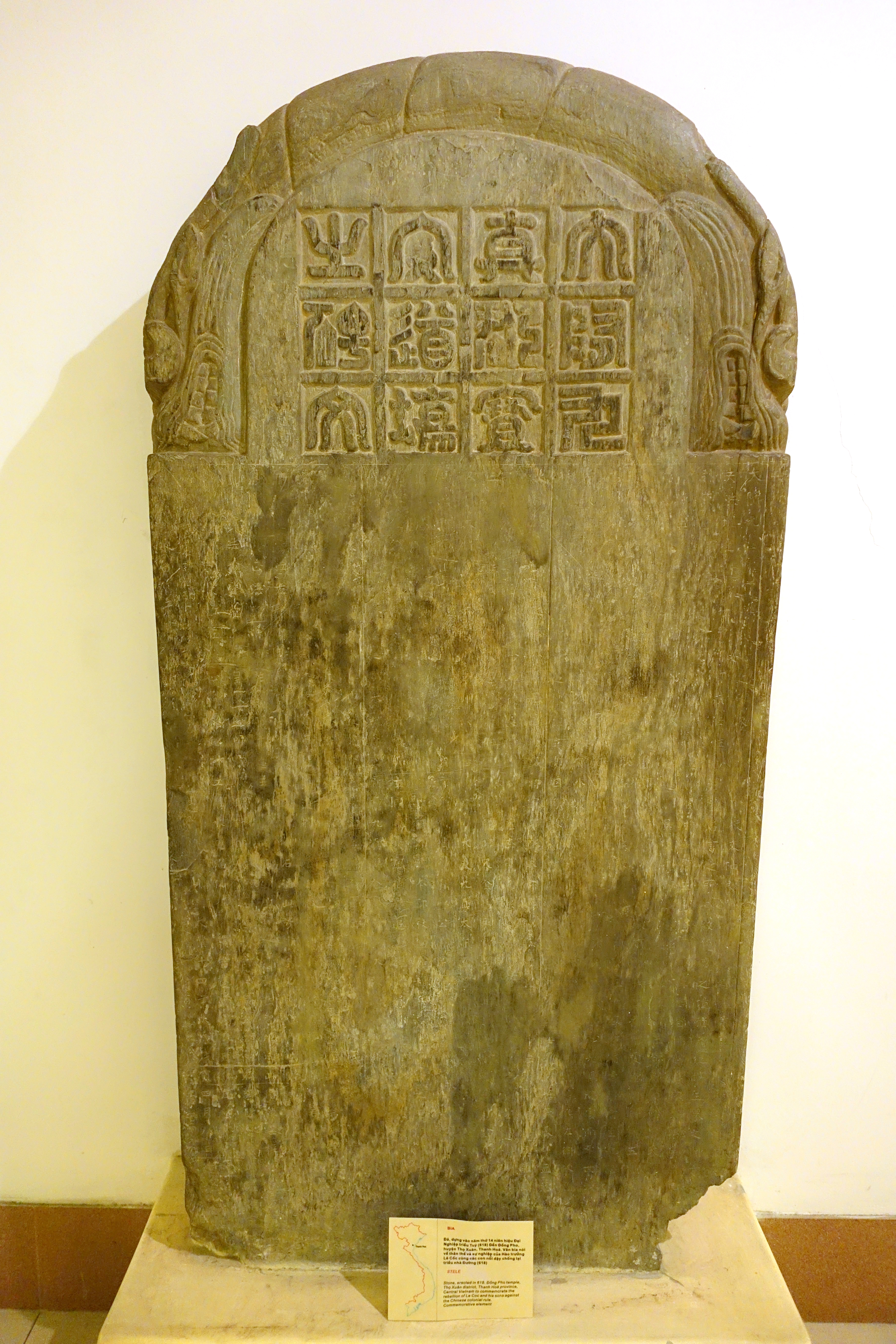 Exhibit in the National Museum of Vietnamese History, Hanoi, Vietnam. This artwork is old enough so that it is in the public domain.